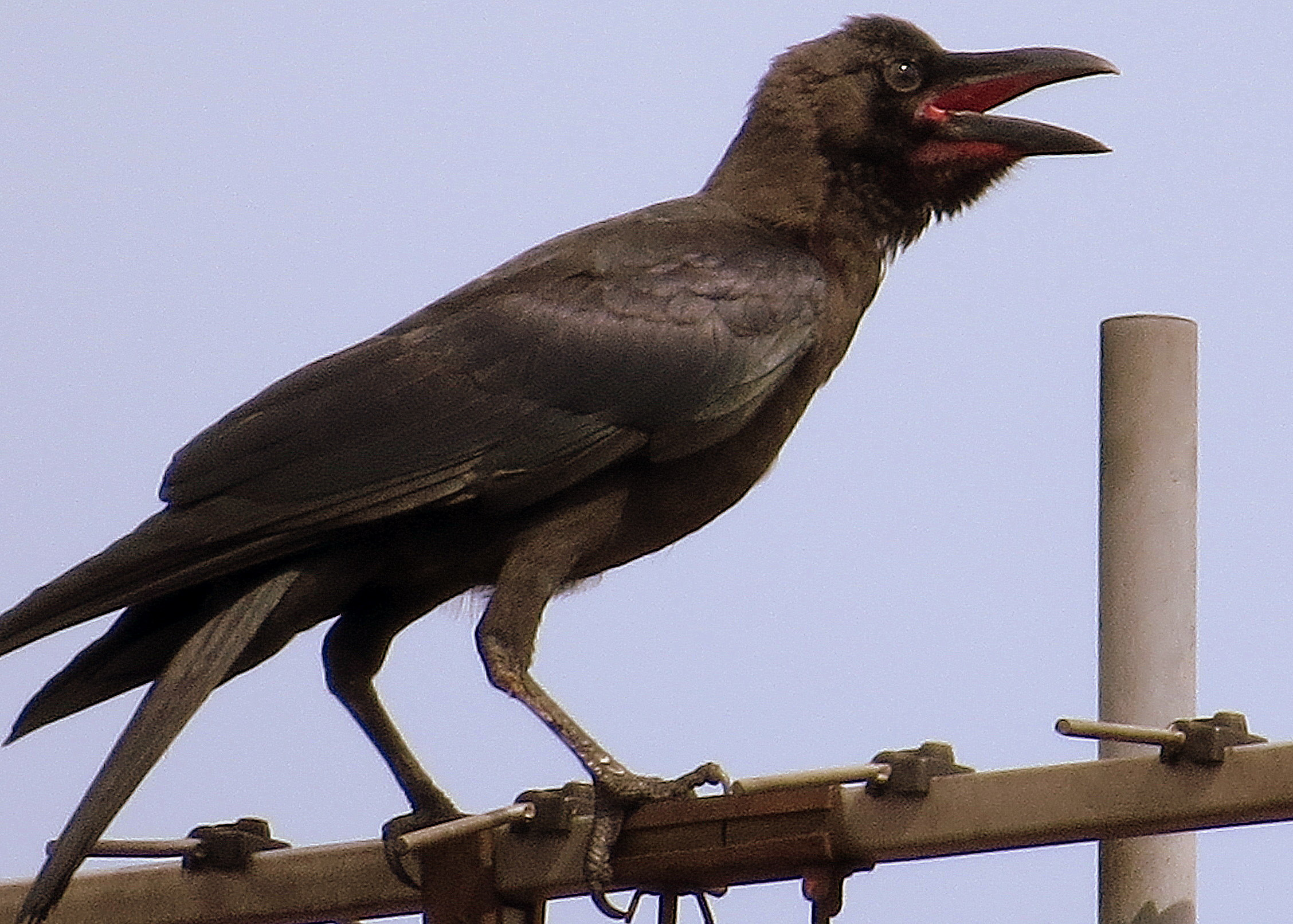 Corvus Corvidae/Crow in Malaysia perching on TV Antenna.